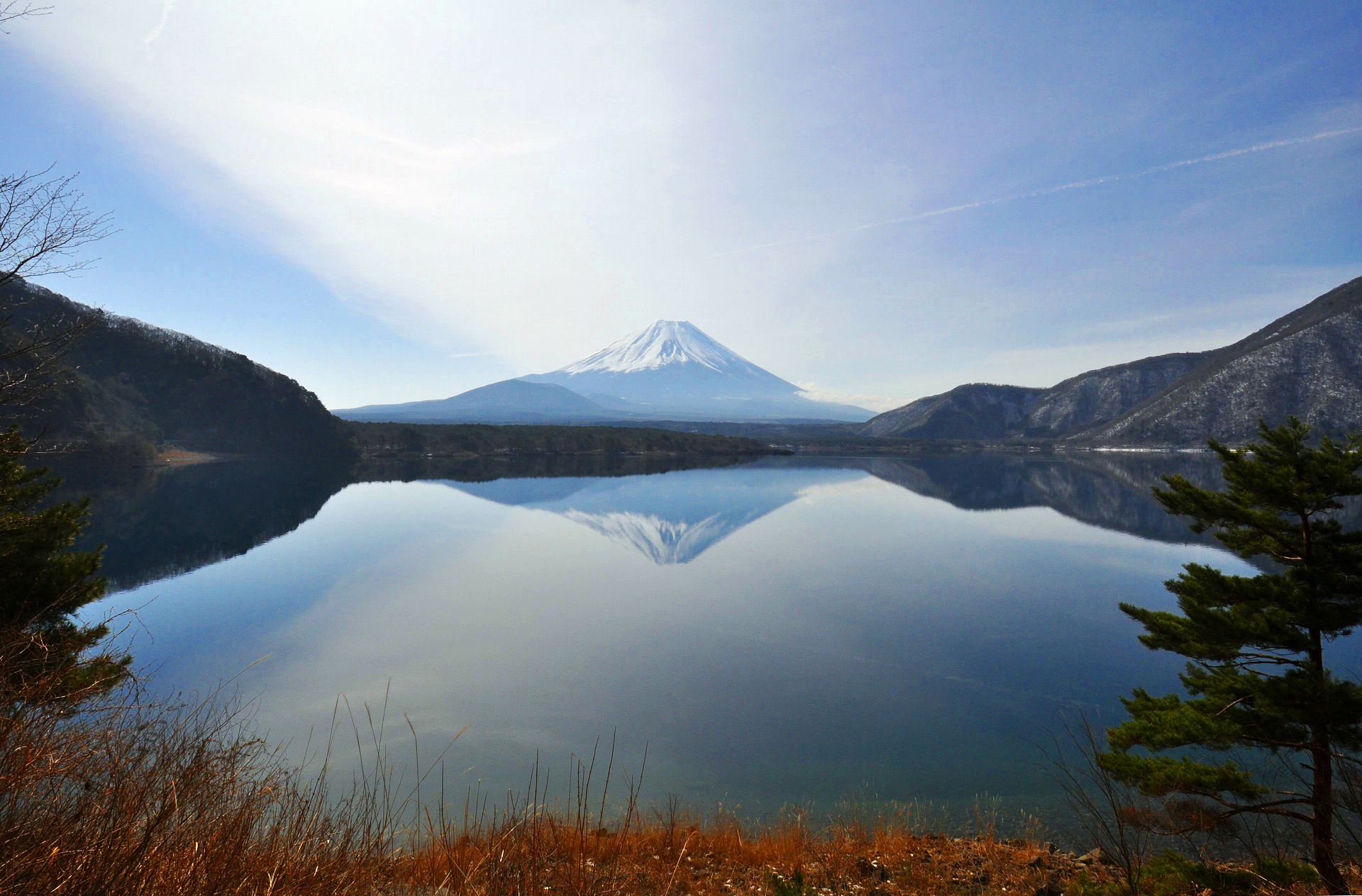 Reflection of Mount Fuji in Lake Motosu